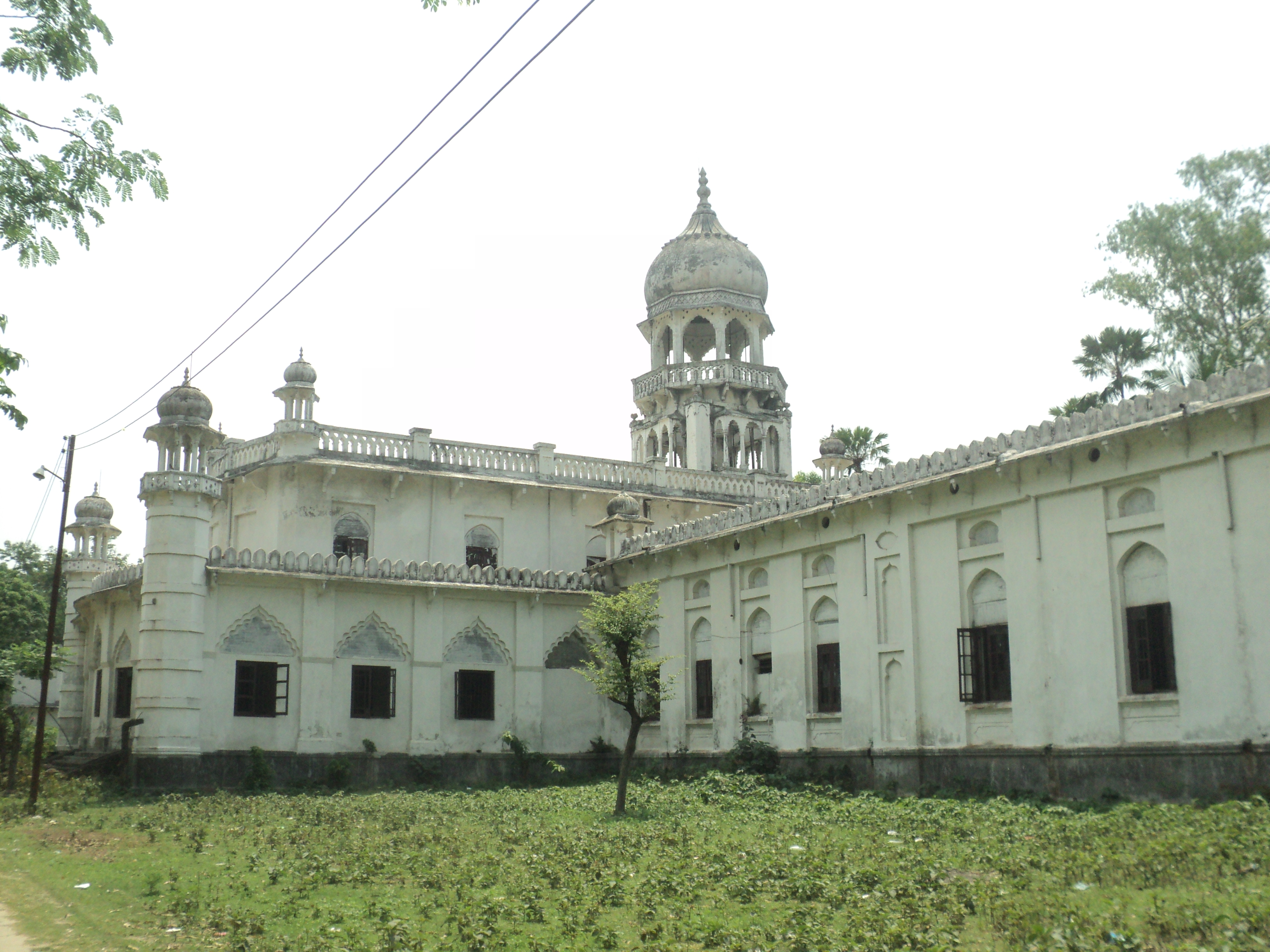 Carmichael College